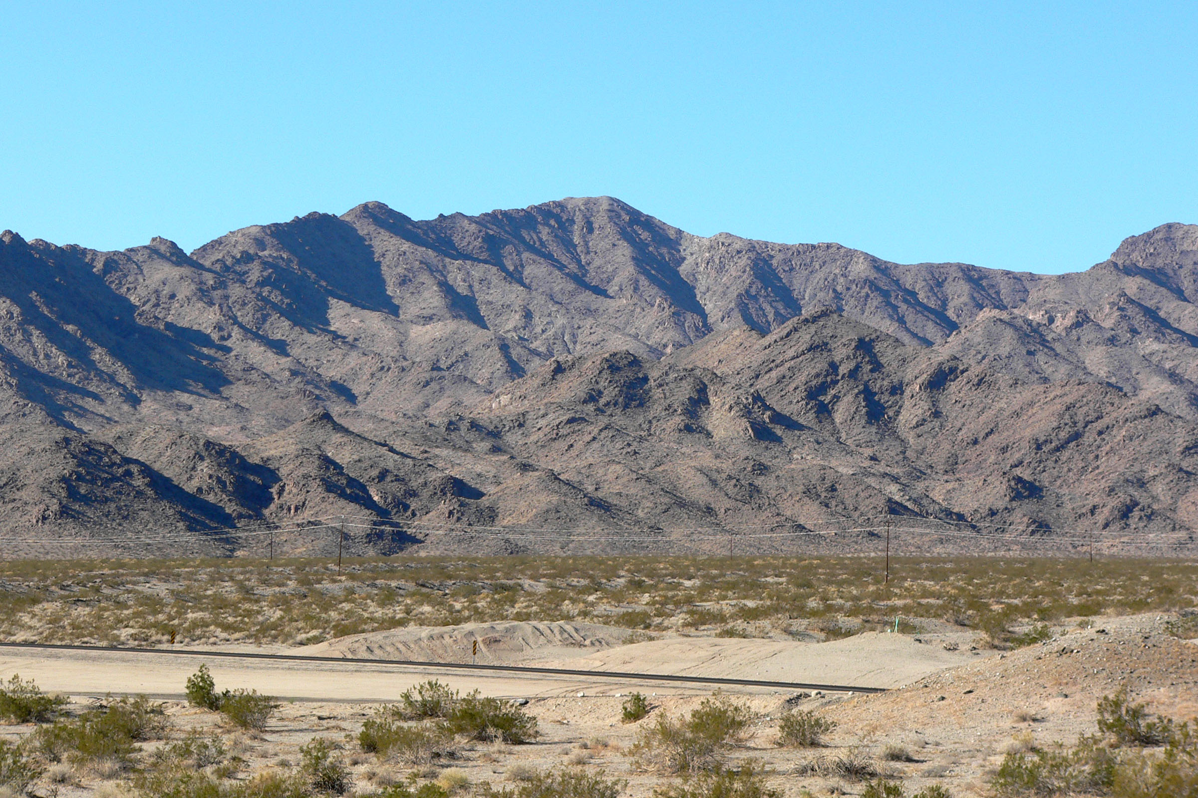 The Dead Mountains seen from the Nevada part of the Needles Highway (highway visible in foreground)